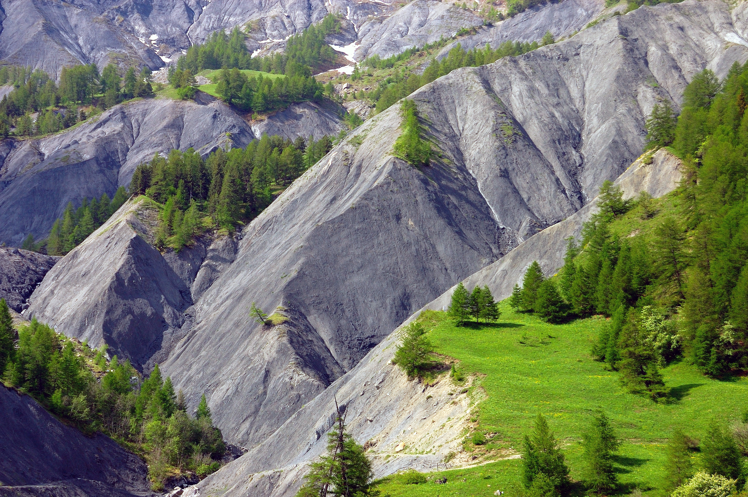 Badland near Barcelonnette, Provence-Alpes-Côte d'Azur, France